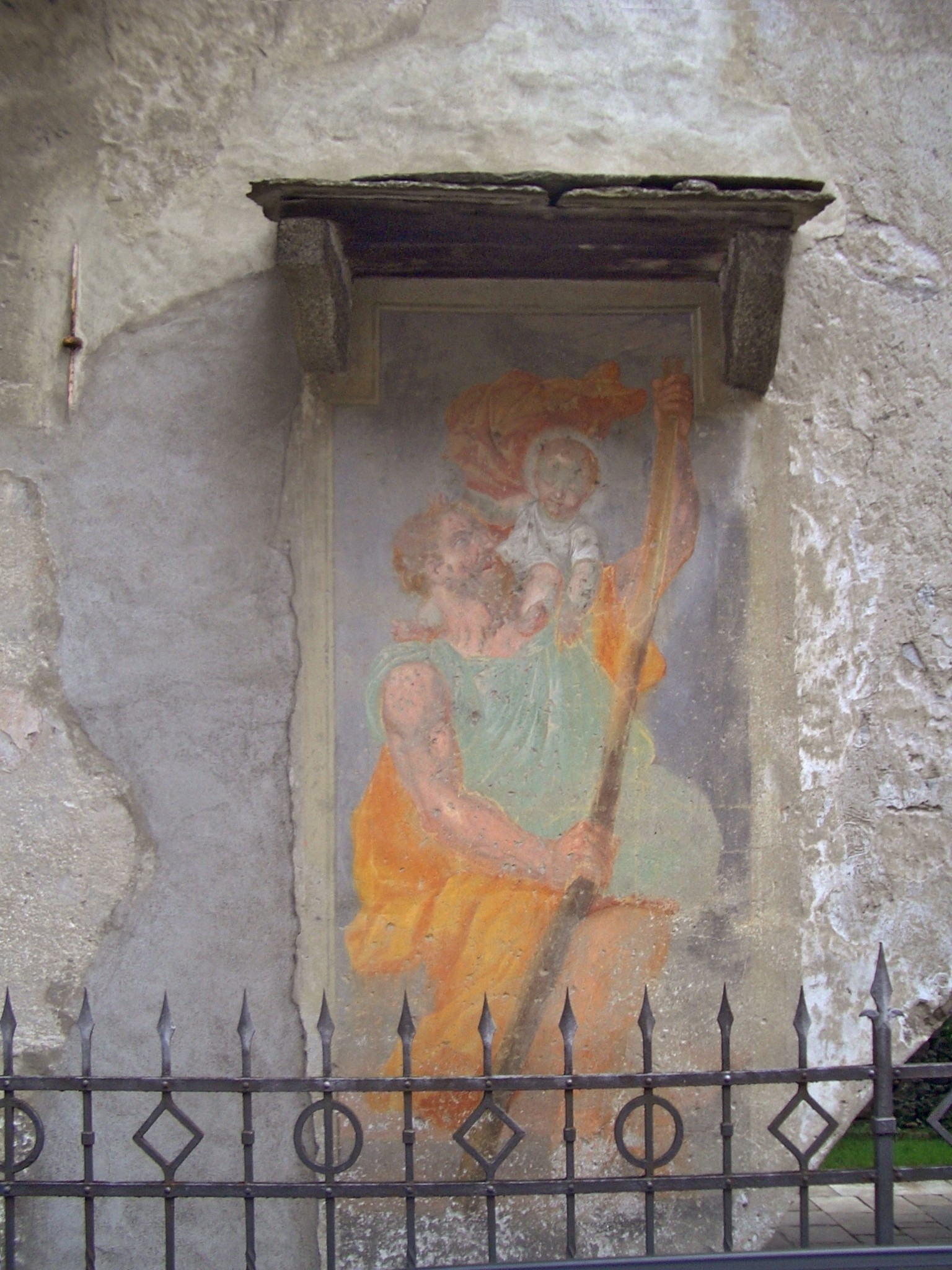 Varallo Sesia, St. Mark church, fresco of St. Christopher